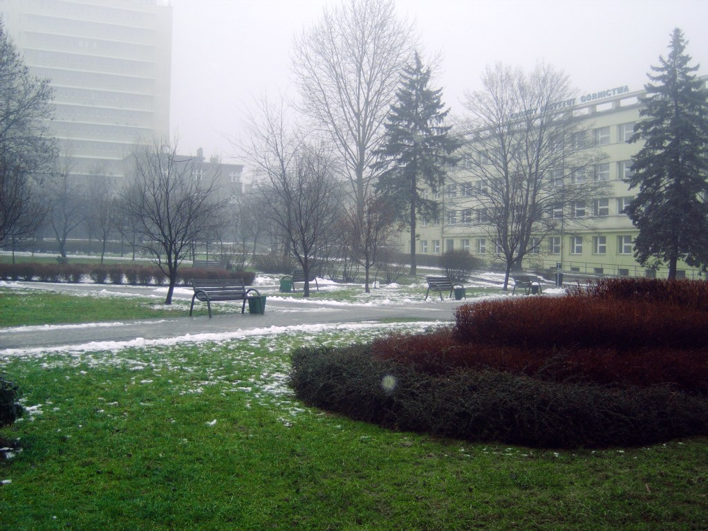 Gwarków Square in Katowice